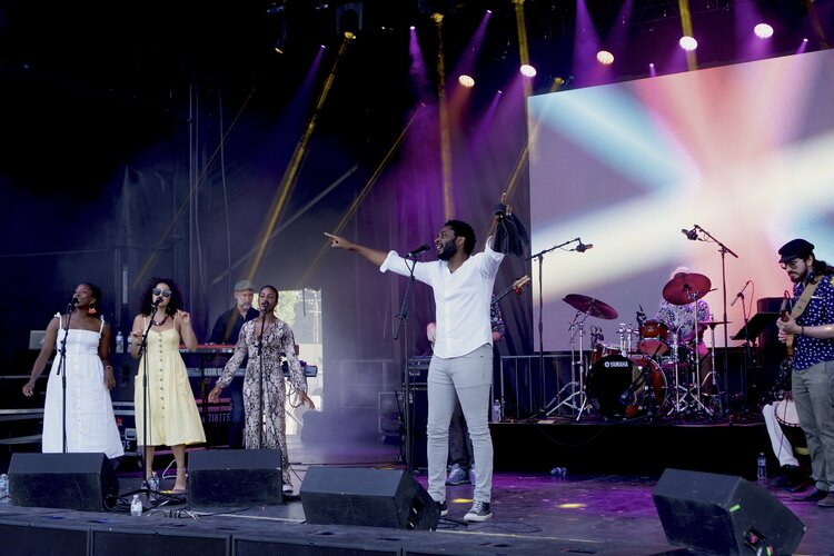 Jamaican-Canadian recording artist Jonathan Emile performing at Canopy Growth's Tweed Shindig 2019 in Smith Falls, Ontario, Canada.